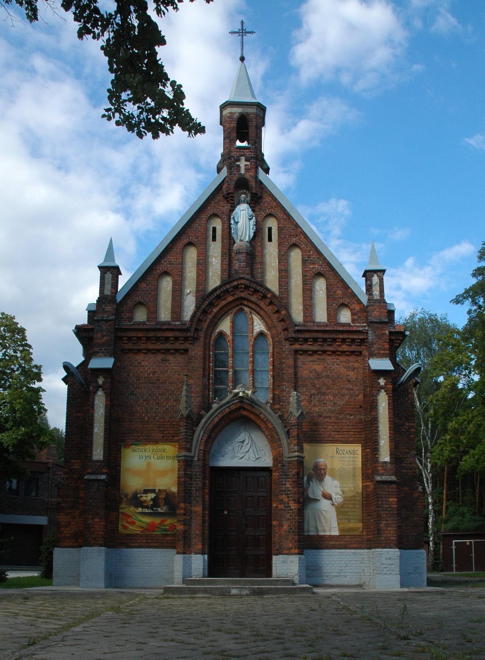 Parish of Nativity of the Blessed Virgin Mary in Warsaw (Płudy)